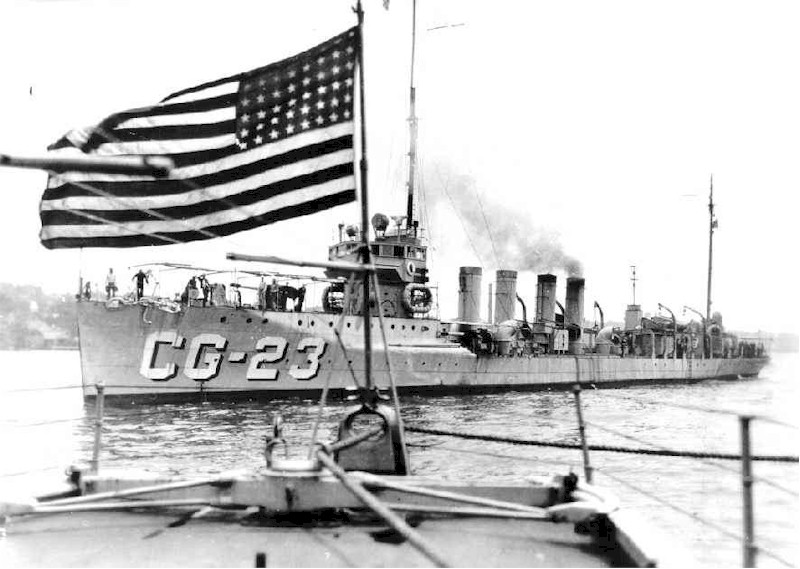 USCGC Tucker (CG-23), the former USS Tucker (DD-57), as part of the United States Coast Guard's "Rum Patrol" during Prohibition in the United States